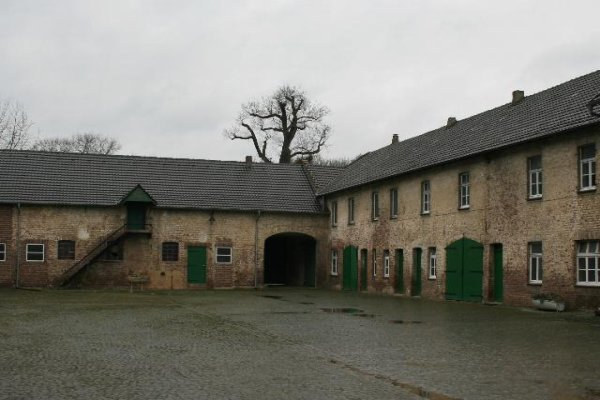 Cultural heritage monument No. 99 in Hückelhoven